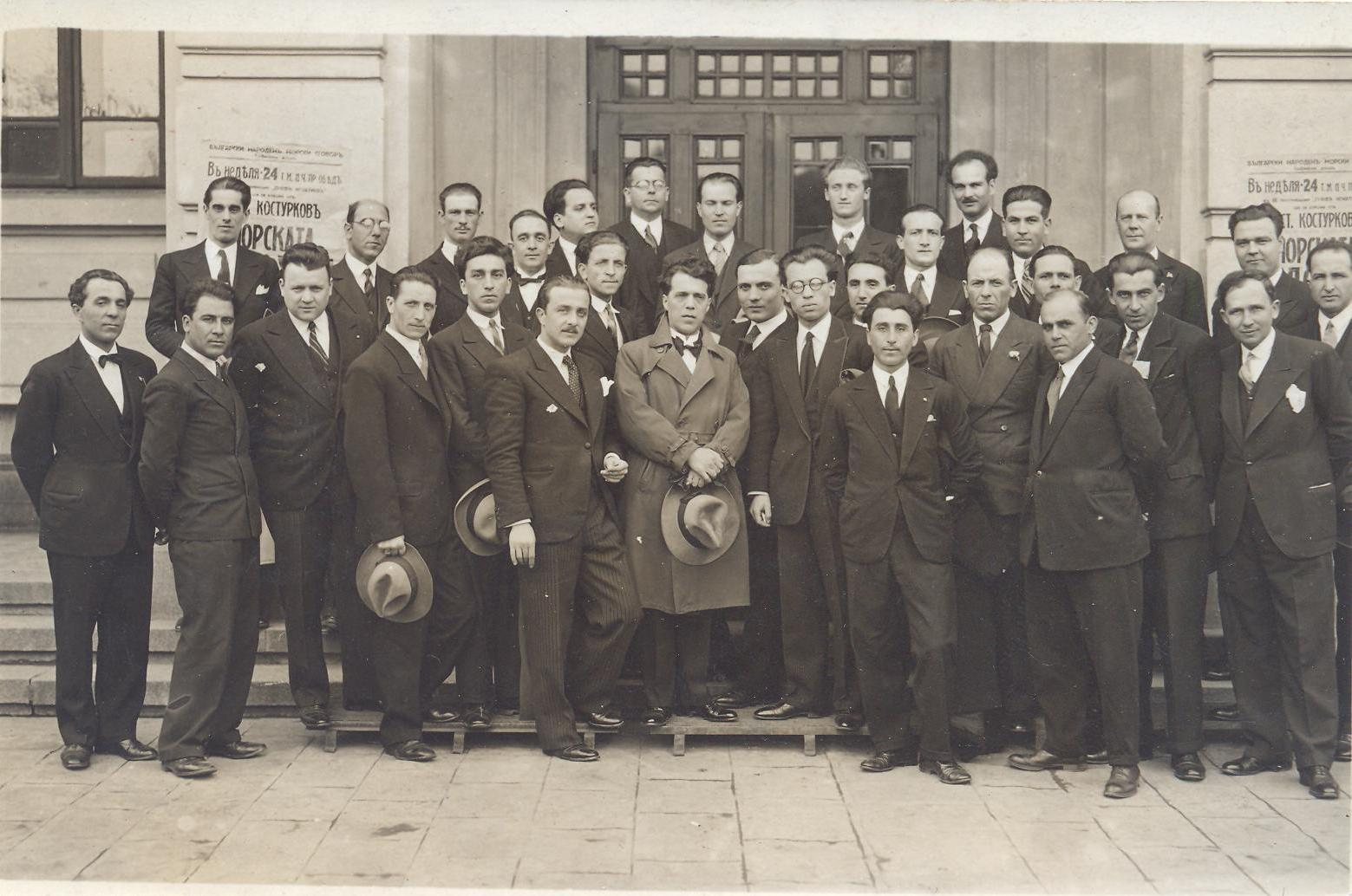 Gusla Choir, Bulgaria, 22 april 1933.